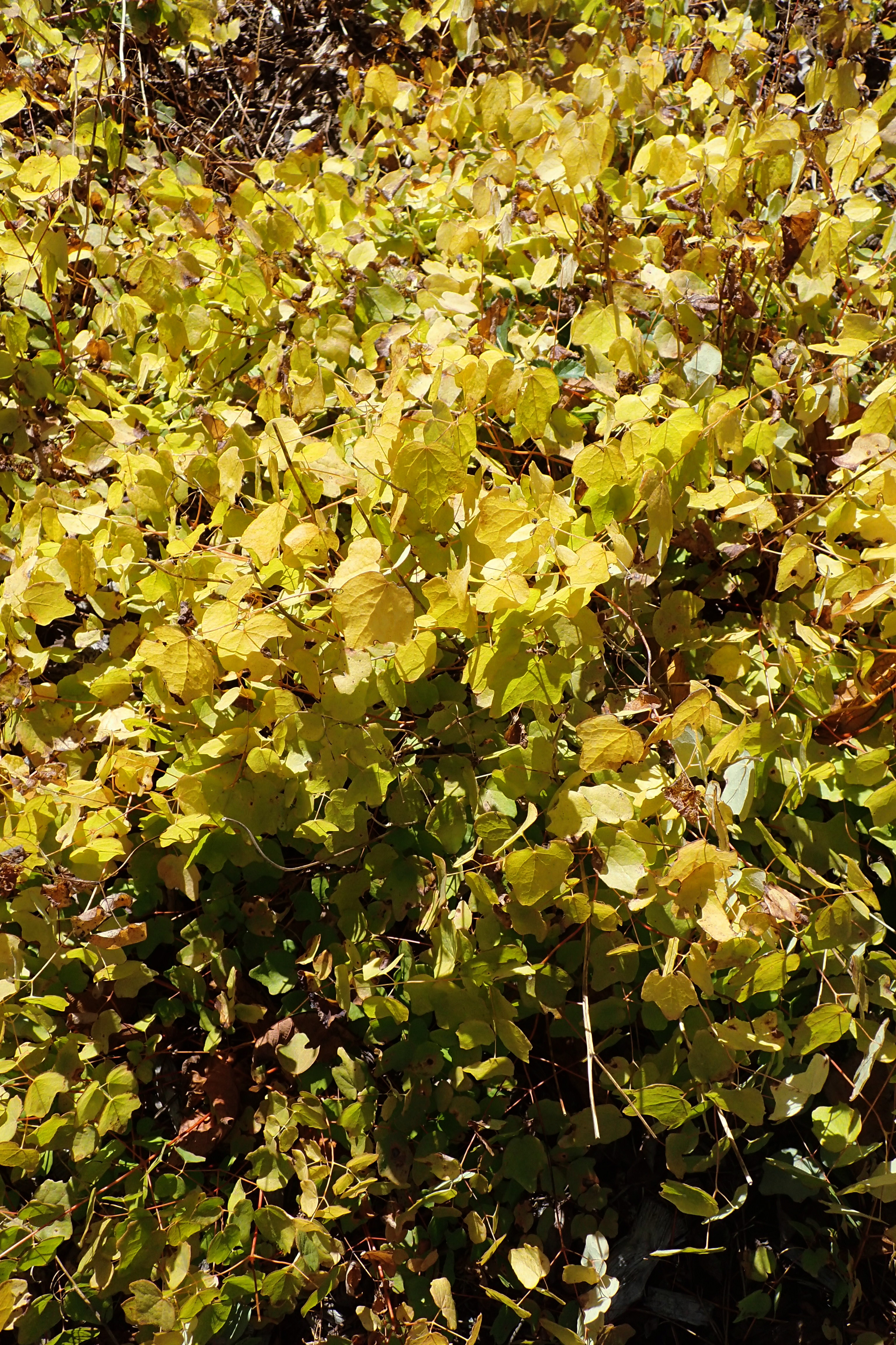 Vancouveria planipetala in the Humboldt Botanical Garden